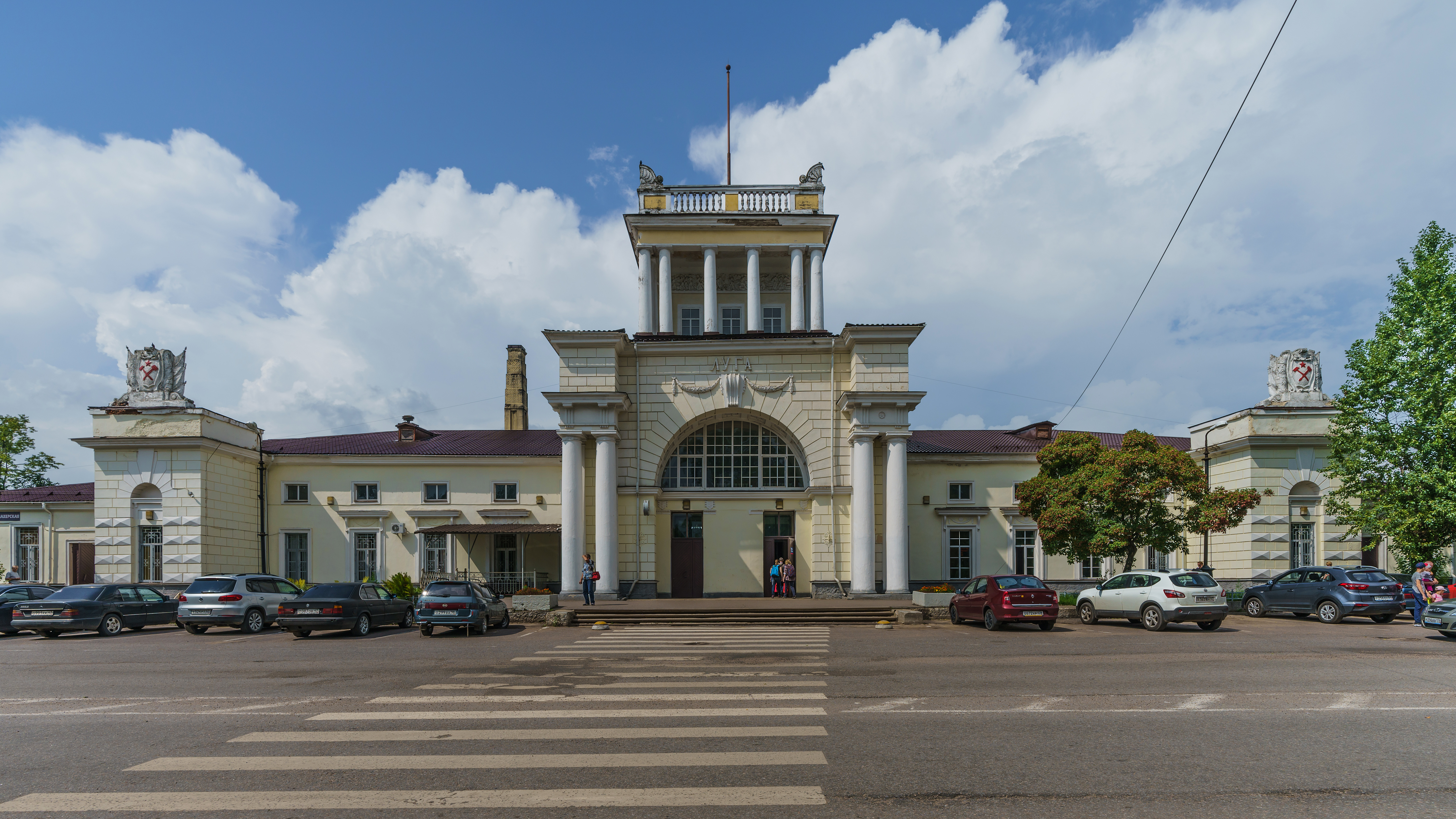 Luga I railway station, Leningrad Oblast, Russia.